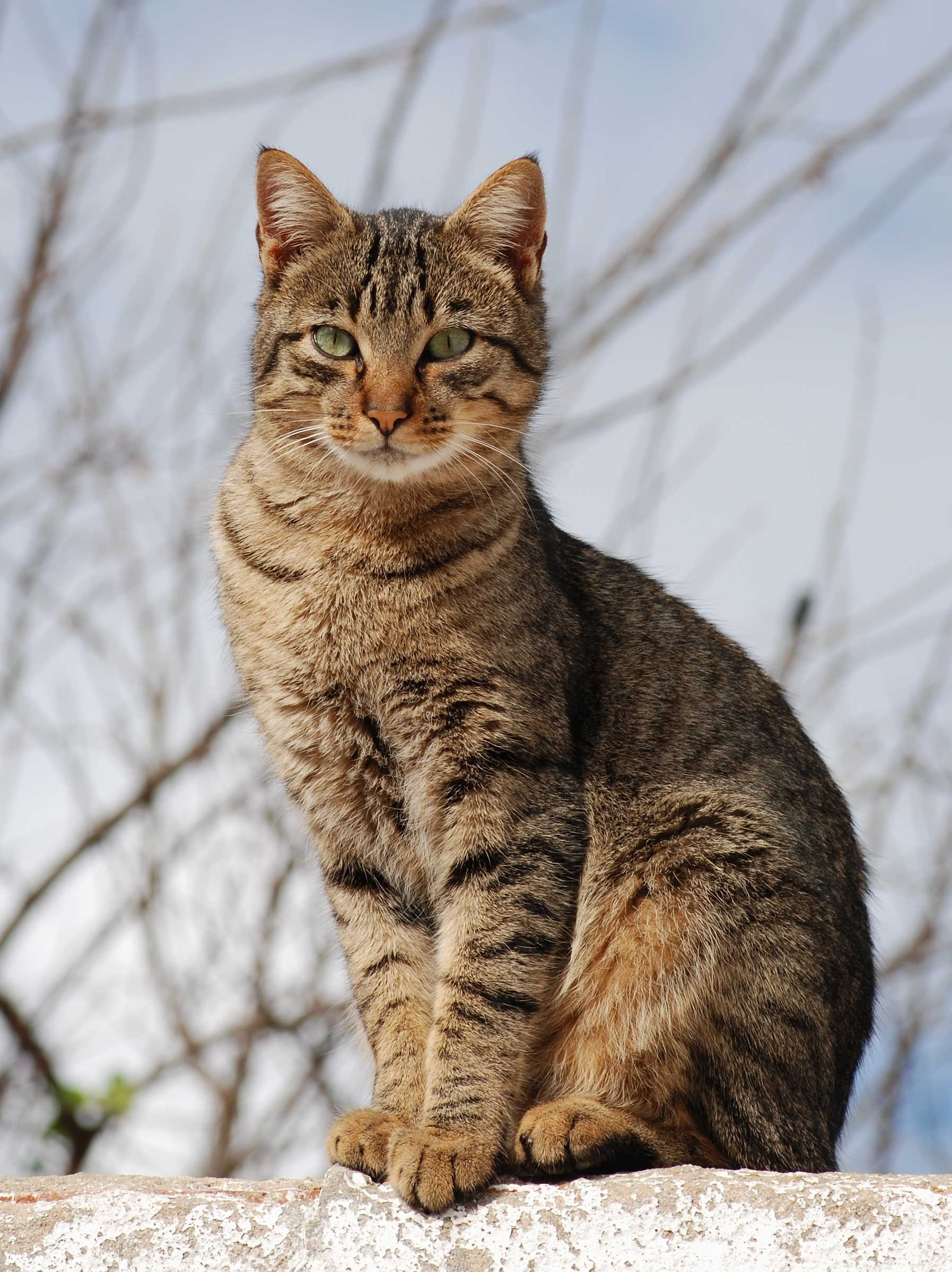 Young male tabby cat, Portugal.